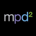 Northwestern University Master of Product Design and Development logo